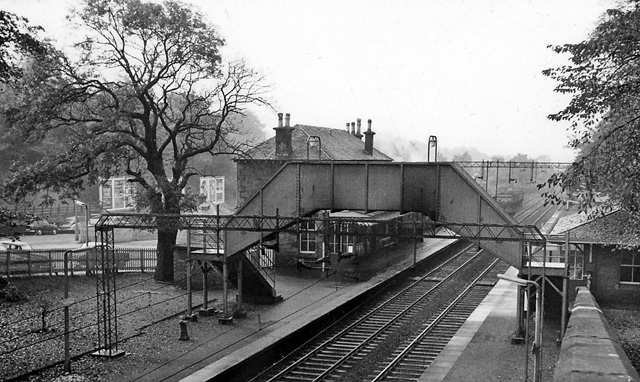 Bearsden Station. Near to Bearsden, East Dunbartonshire, Great Britain. View SW, towards Maryhill and Glasgow (Queen St.); Maryhill - Milngavie branch of Glasgow North Clyde (former NBR) suburban lines, electrified 11/60.